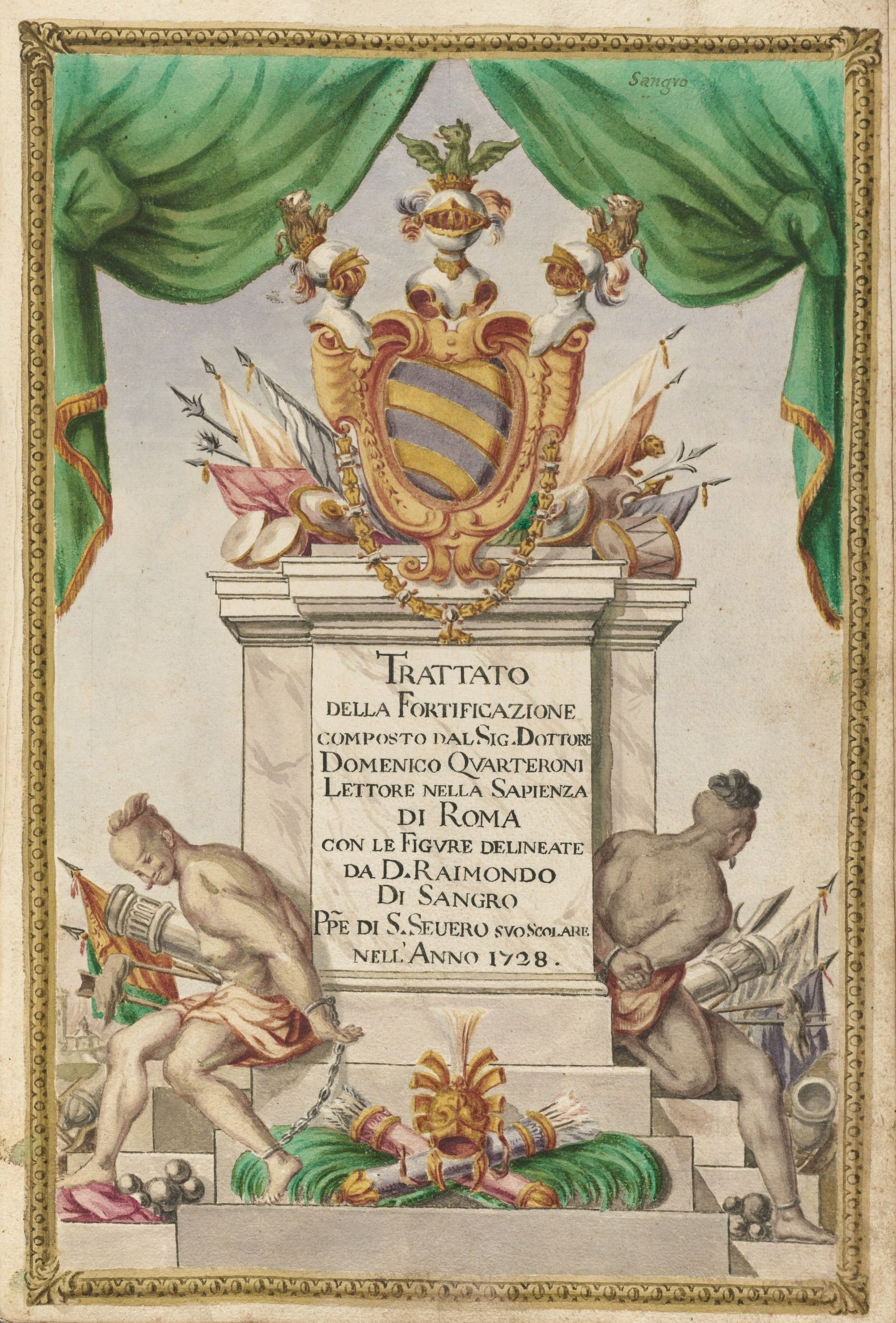 Hand-drawn title page illustration from, Trattato della fortificazione (manuscript), 1728, by Domenico Quarteroni. MS Typ 255, Houghton Library, Harvard University